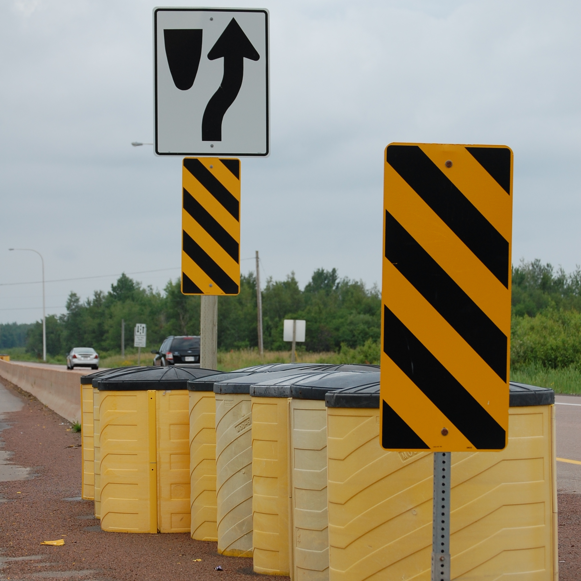 Fitch barrels - crash attenuators at gore (Coordinates: 46.235024, -64.581287)